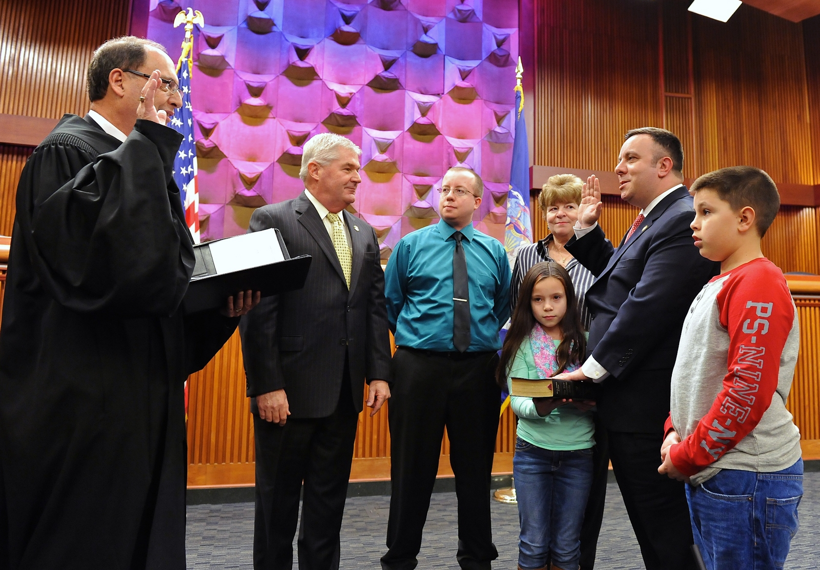 Karl Brabenec was officially sworn in as a member of the New York State Assembly on Tuesday, Jan. 6, surrounded by his family. Pictured from left to right are: Judge Kevin Engel, Minority Leader Brian Kolb, Tom Brabenec (brother), Emilie Brabenec (mother), Kimberly Brabenec (daughter), Assemblyman Karl Brabenec and his son, Karl Brabenec Jr.